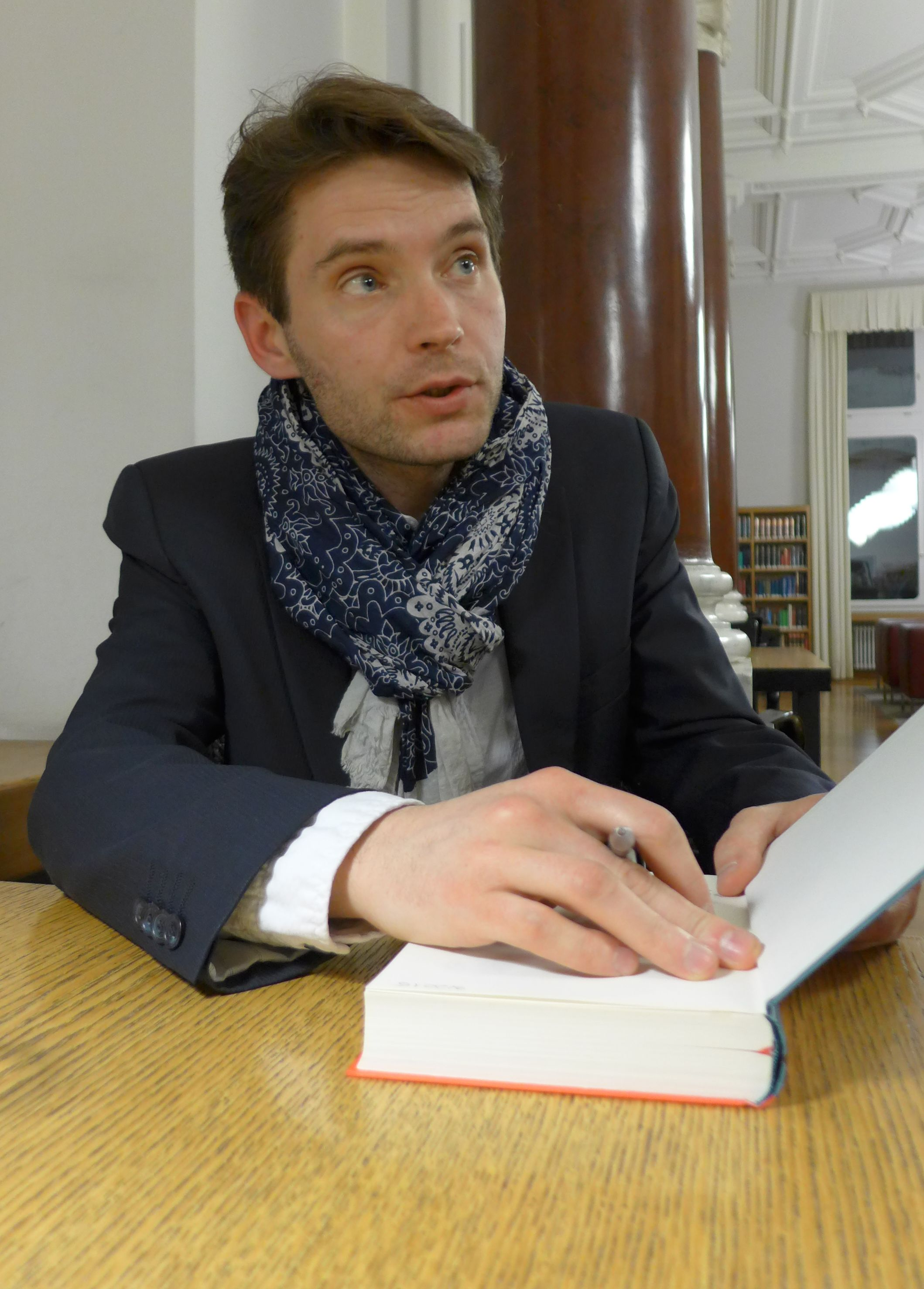 Belarusian author Viktor Martinowitsch (Viktar Marcinovič) signing his book Paranoia, Literaturhaus Zürich, 8th of April 2015.